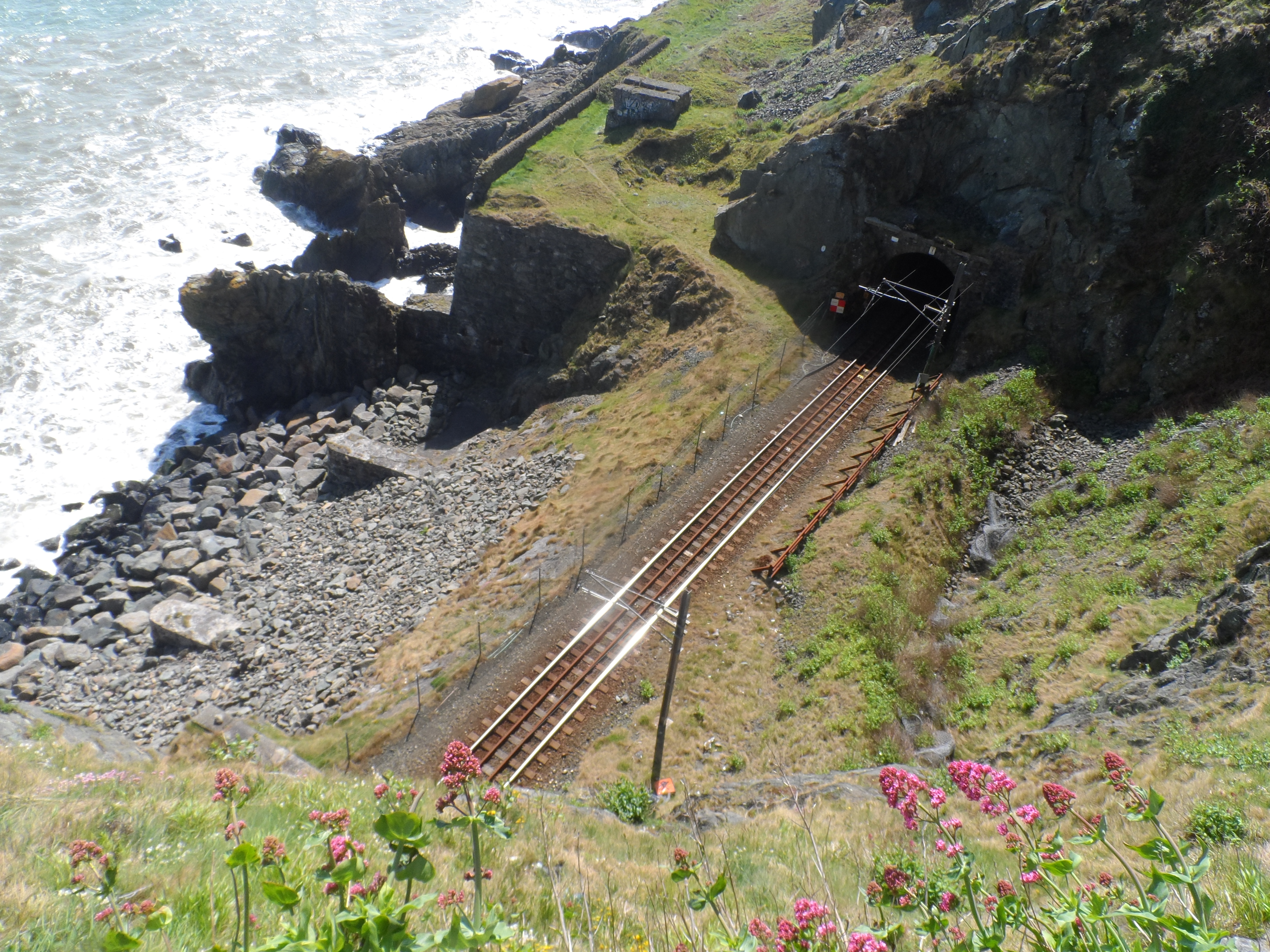 Railroad, County Wicklow